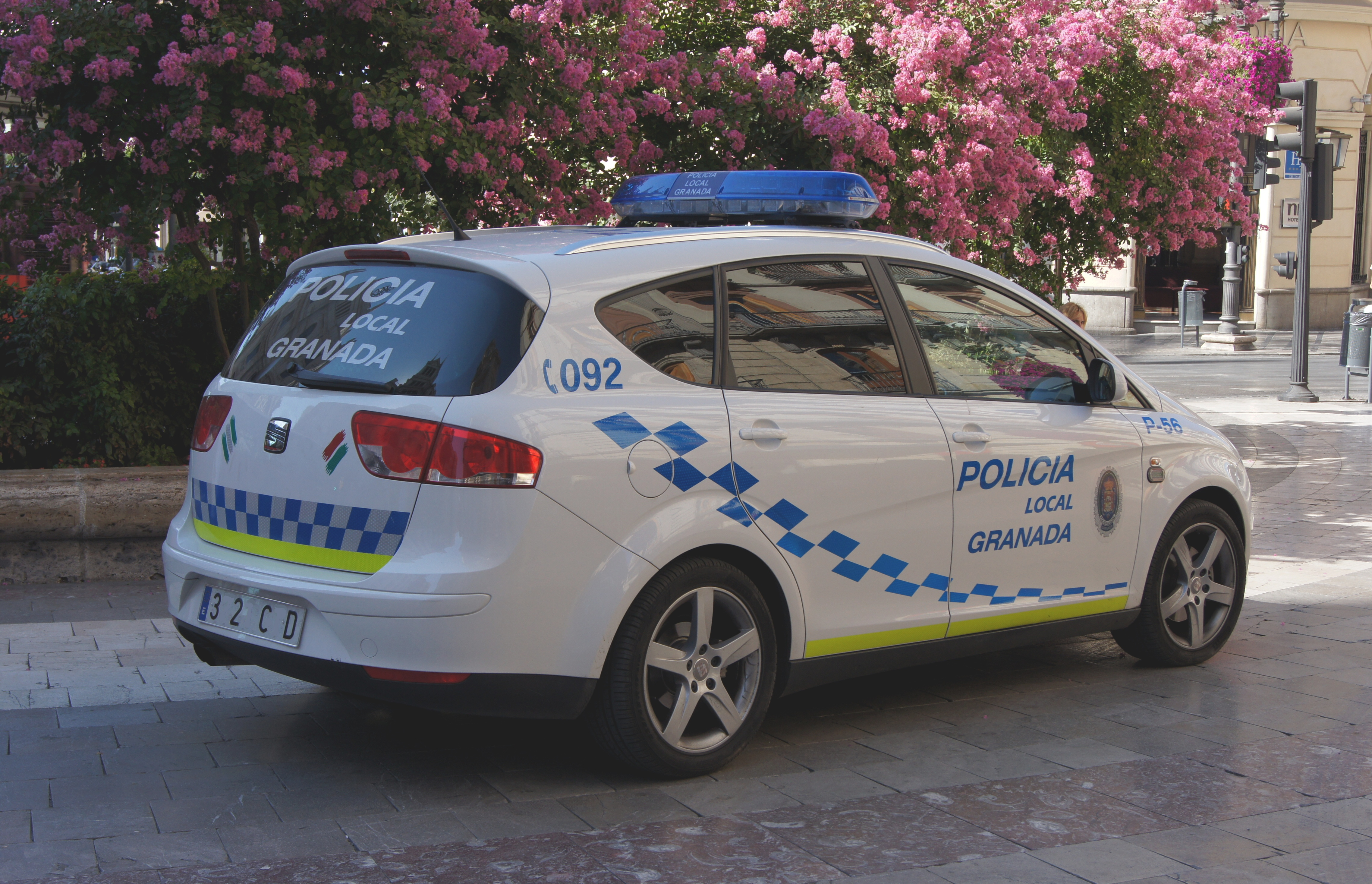 A police car (Seat) of the city of Granada local police, Spain.